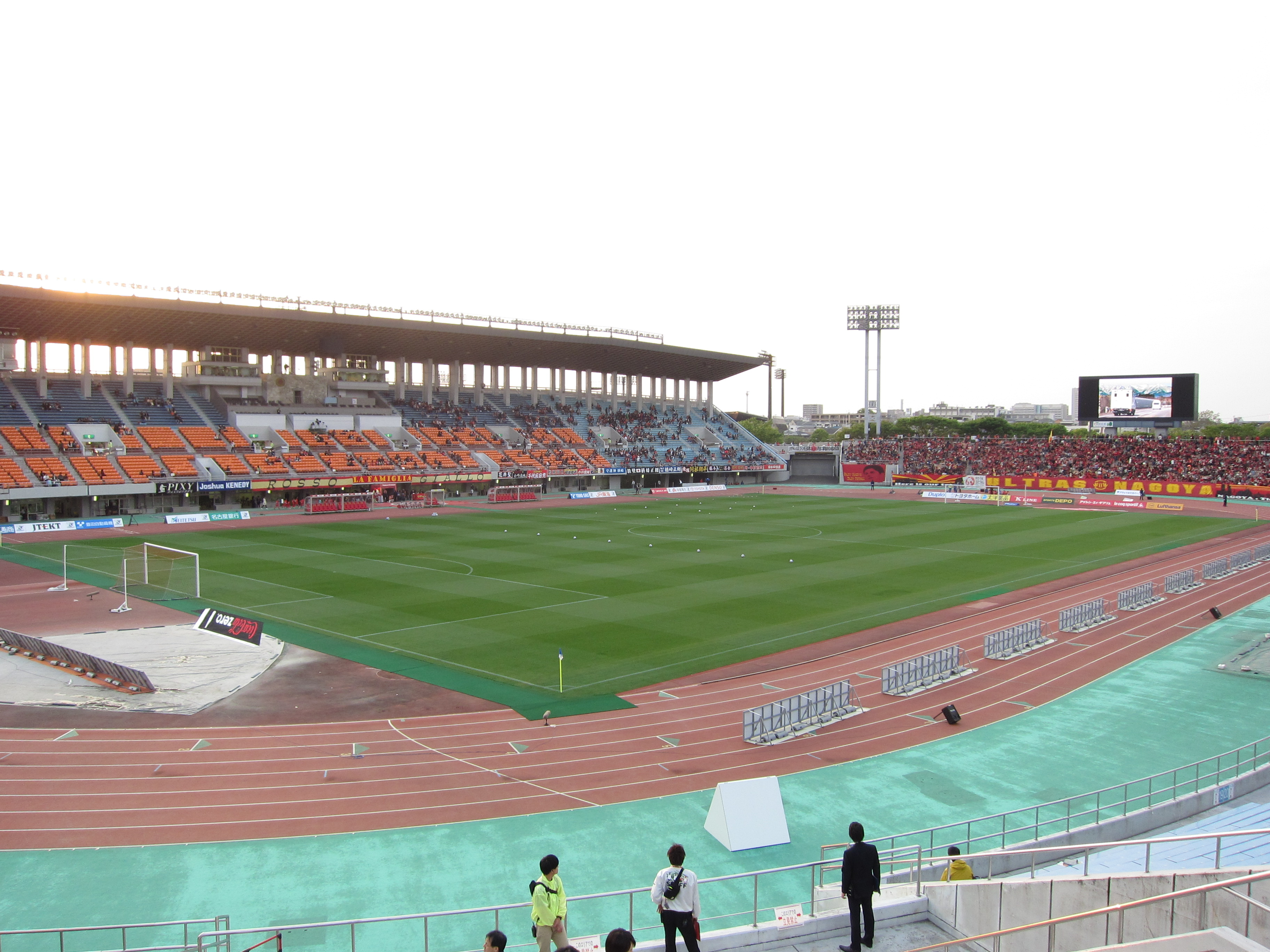 Mizuho Athletic Stadium